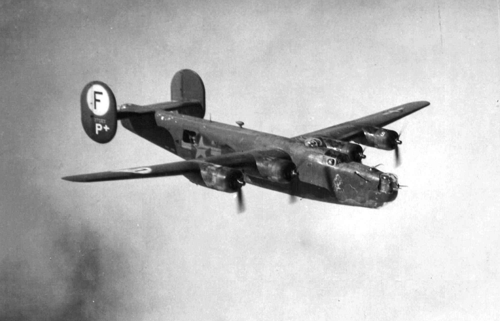 "Hell's Warrior" Ford B-24H-1-FO Liberator s/n 42-7563 701st BS, 445th BG, 8th AF Transfered to the 859th BS, 492nd BG in October 1944 and modified for use in Carpetbagger missions. After August 1944 the 492nd Bomb Group was used as a cover for special operations missions in Europe, such as supply drops to Underground forces, agent insertions and propaganda leaflet drops, usually done at night. Aircraft was loaned to the M.T.O. for use by the 15th Special Operations Group. Was lost on the February 9,1944 mission to Karlovak,Yugoslavia. 8 KIA MACR 12361